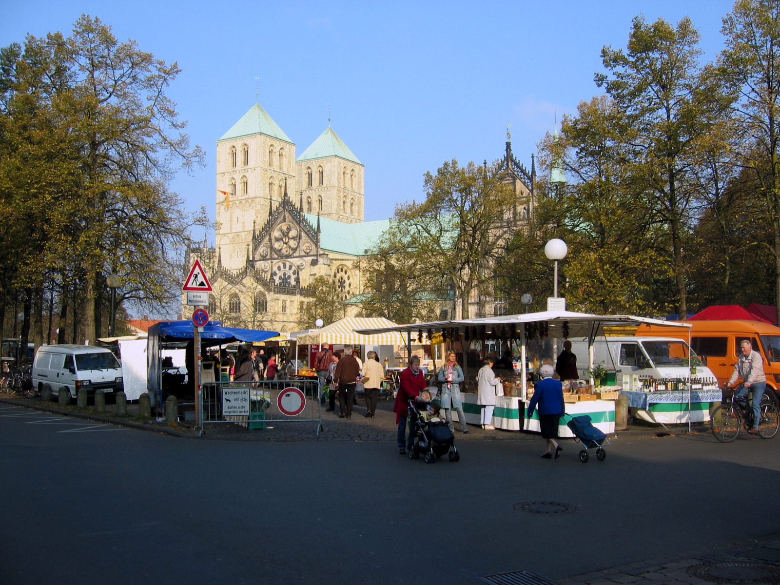 Farmer's market in Münster, Germany